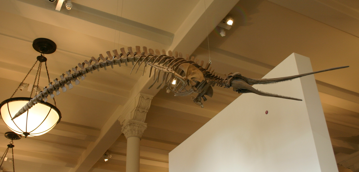 true nosed dolphin